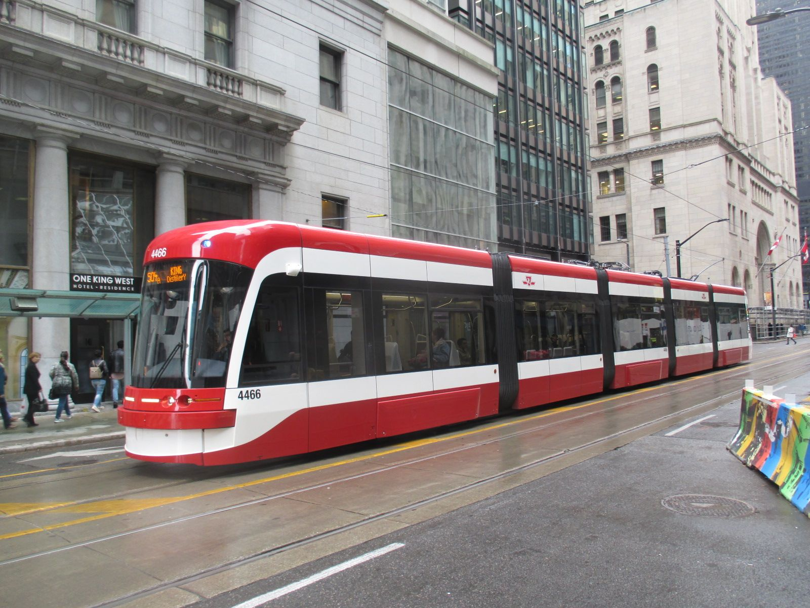 TTC Flexity Outlook streetcar 4466 on route 504A King heading eastbound on King Street at Yonge Street to Distillery Loop